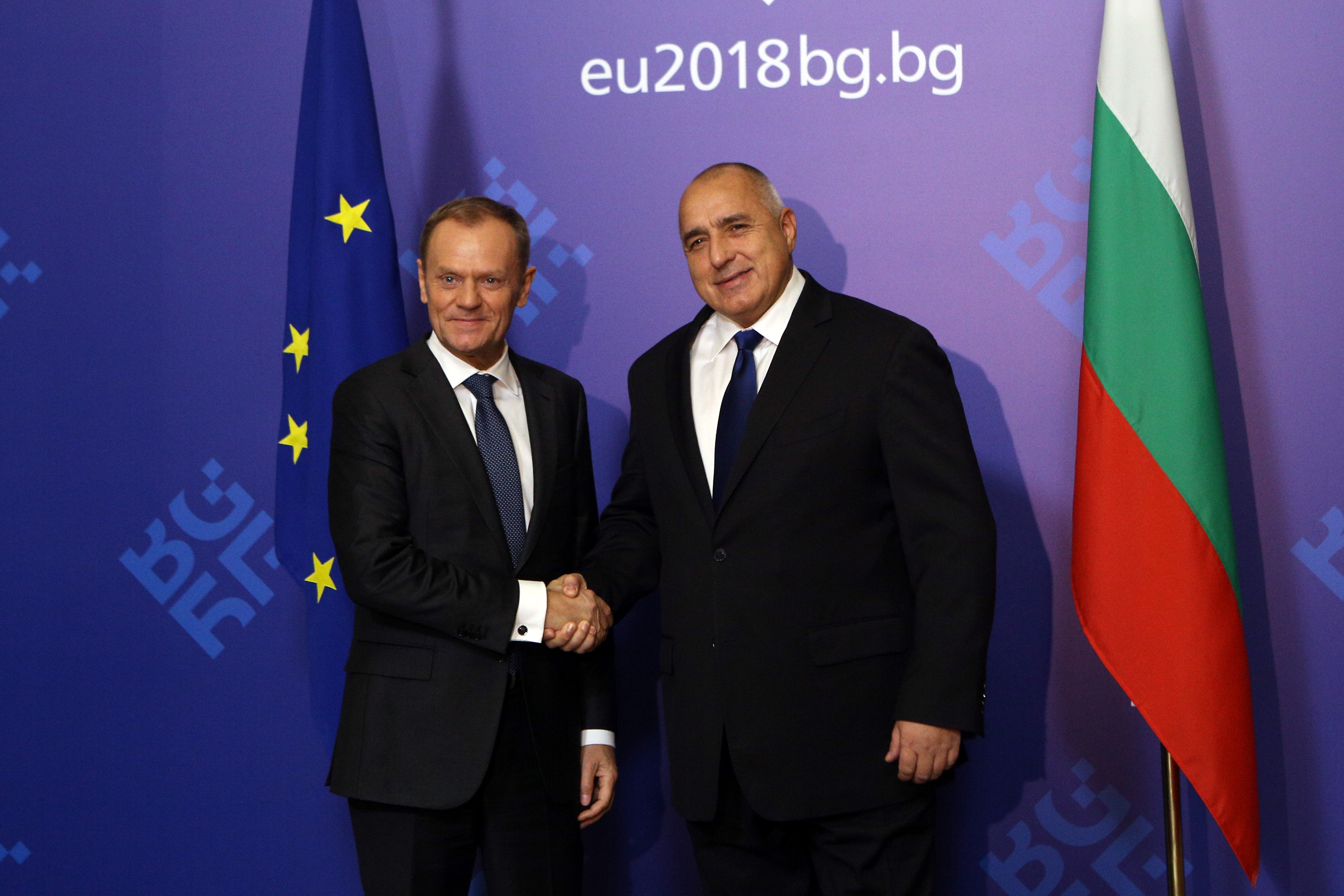 EU Council President Donald Tusk (left) shakes hands with Bulgarian Prime Minister Boyko Borissov. (Handshake) Photo: Kiril Konstantinov (EU2018BG)